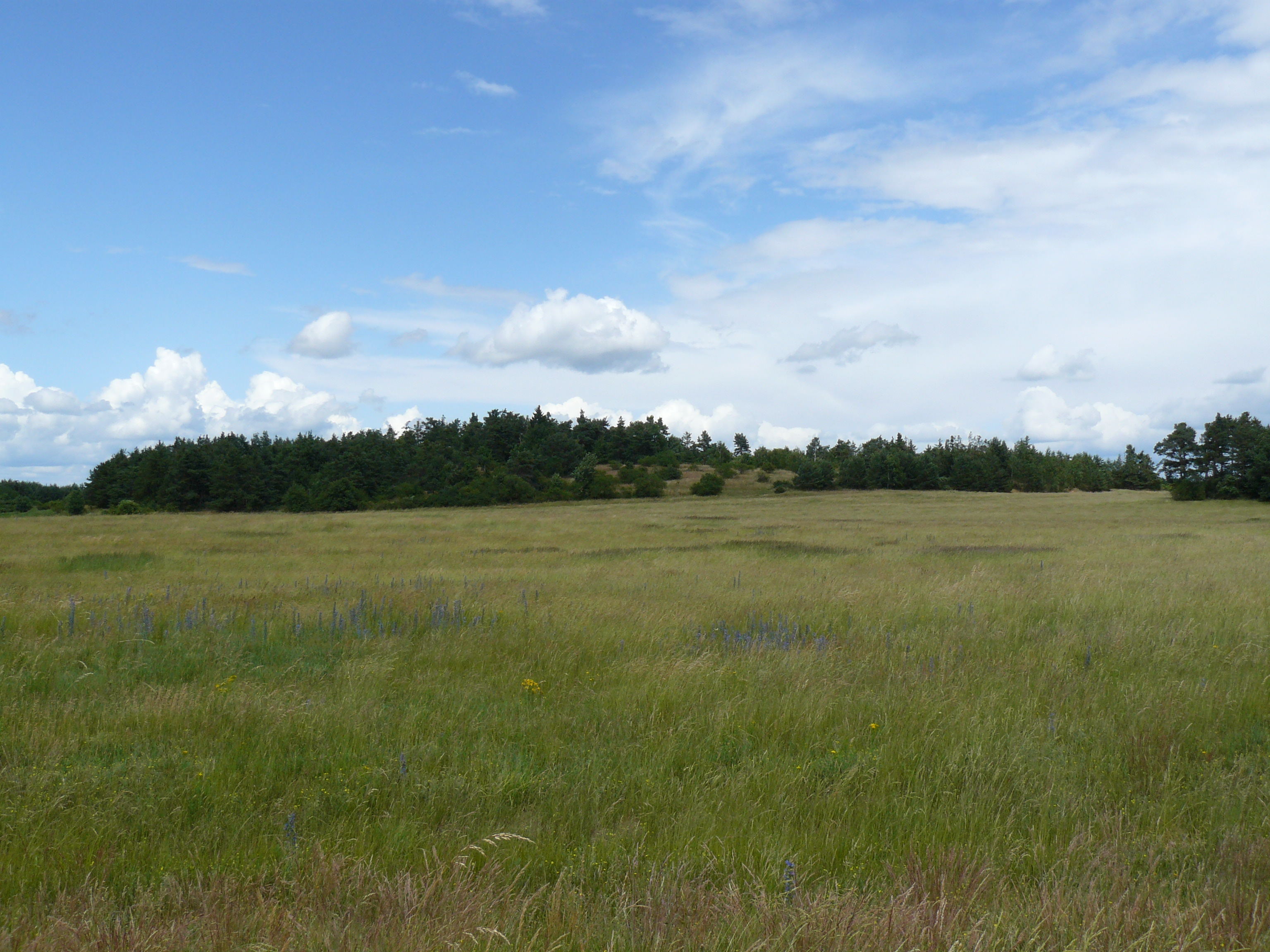 Biskoupsky kopec - Nature Reserve